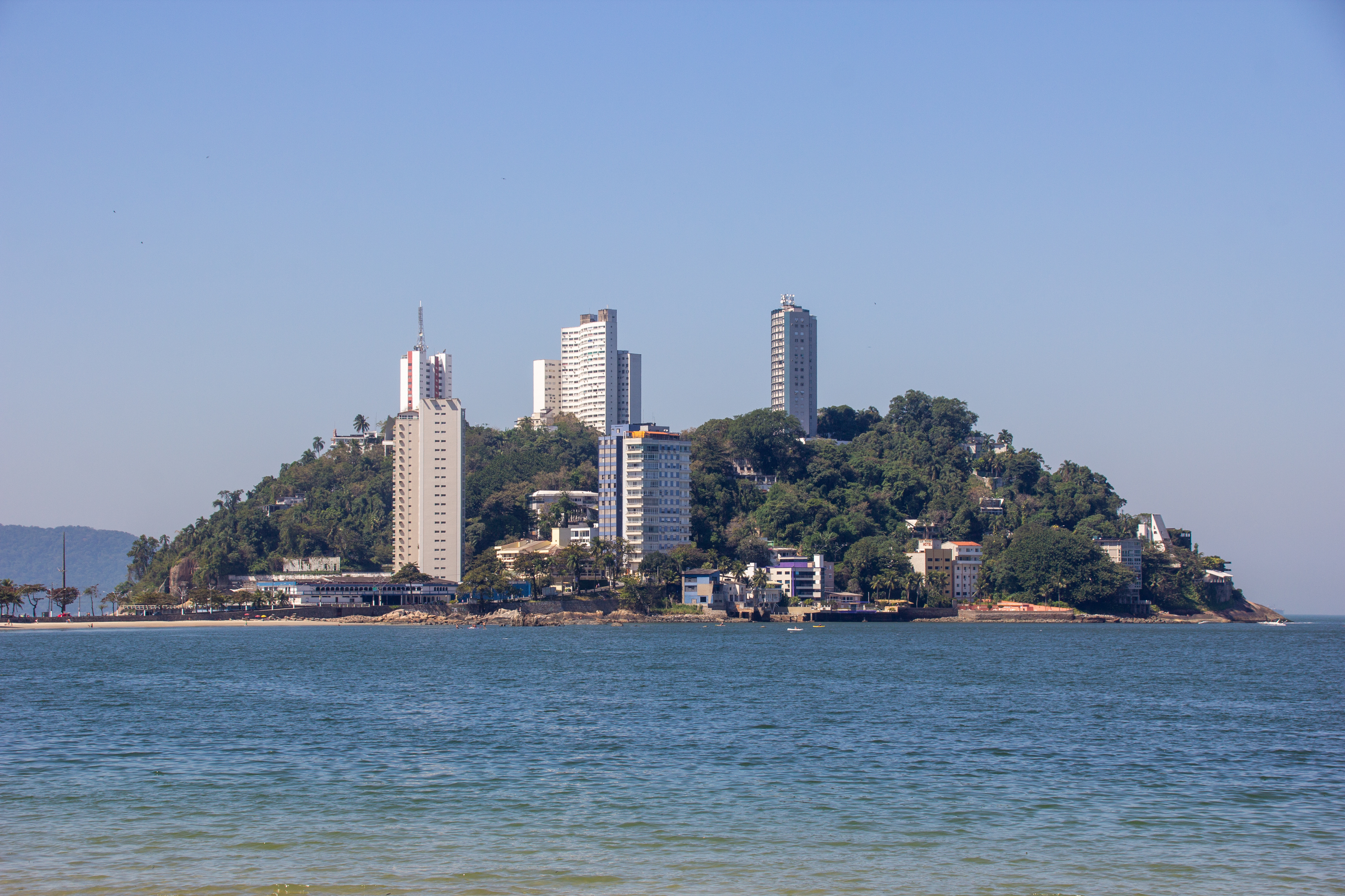 At São Vincente, São Paulo State, Brazil